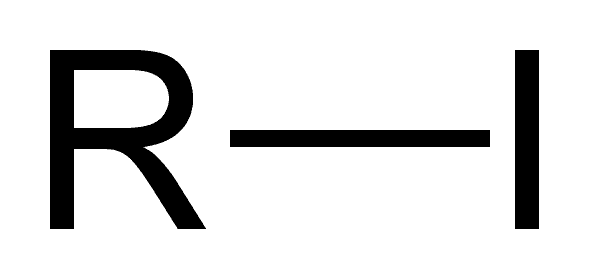 Structural formula of the iodo group, RI